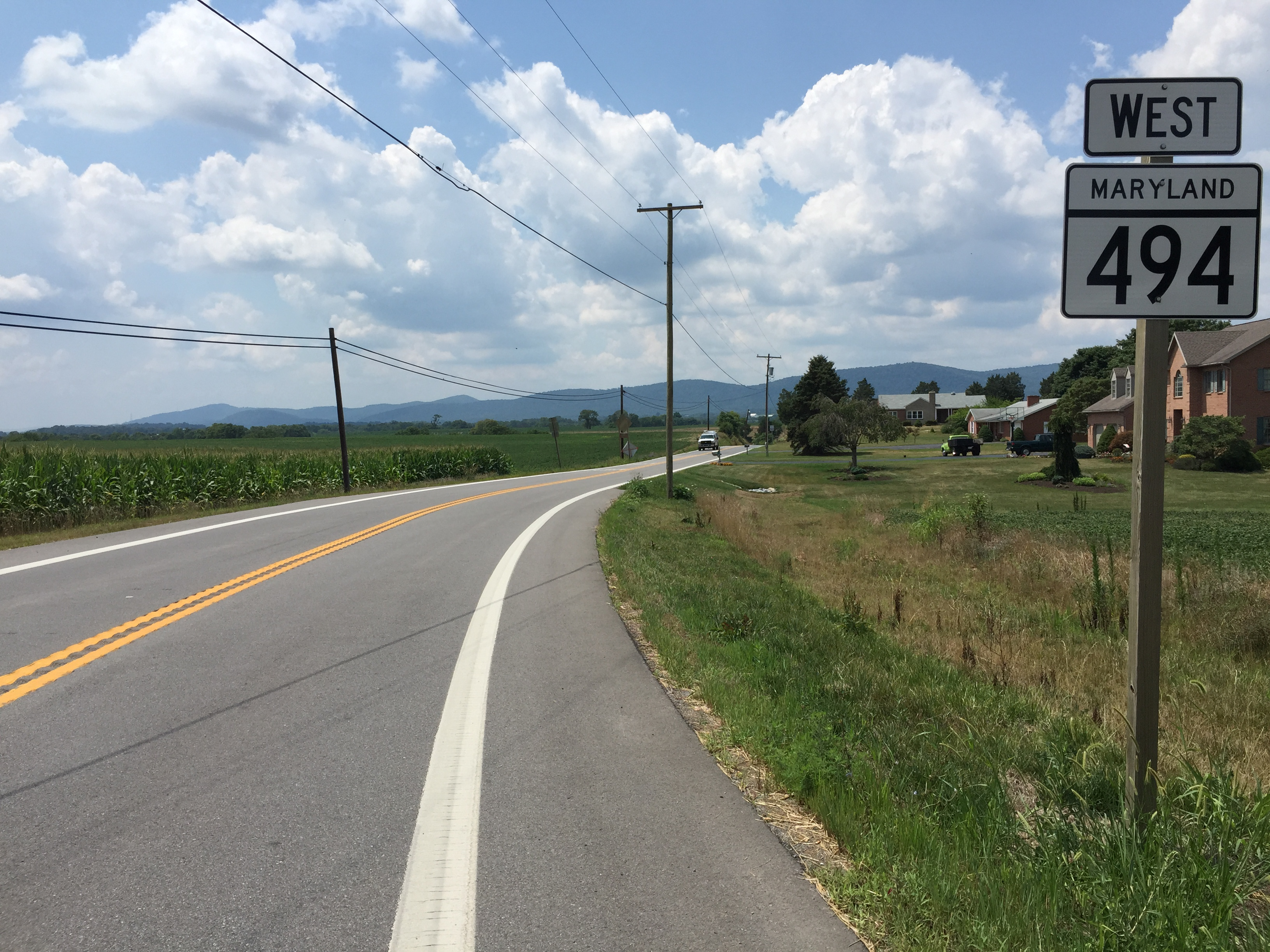 View west along Maryland State Route 494 (Fairview Road) at Fairview Church Road in Fairview, Washington County, Maryland